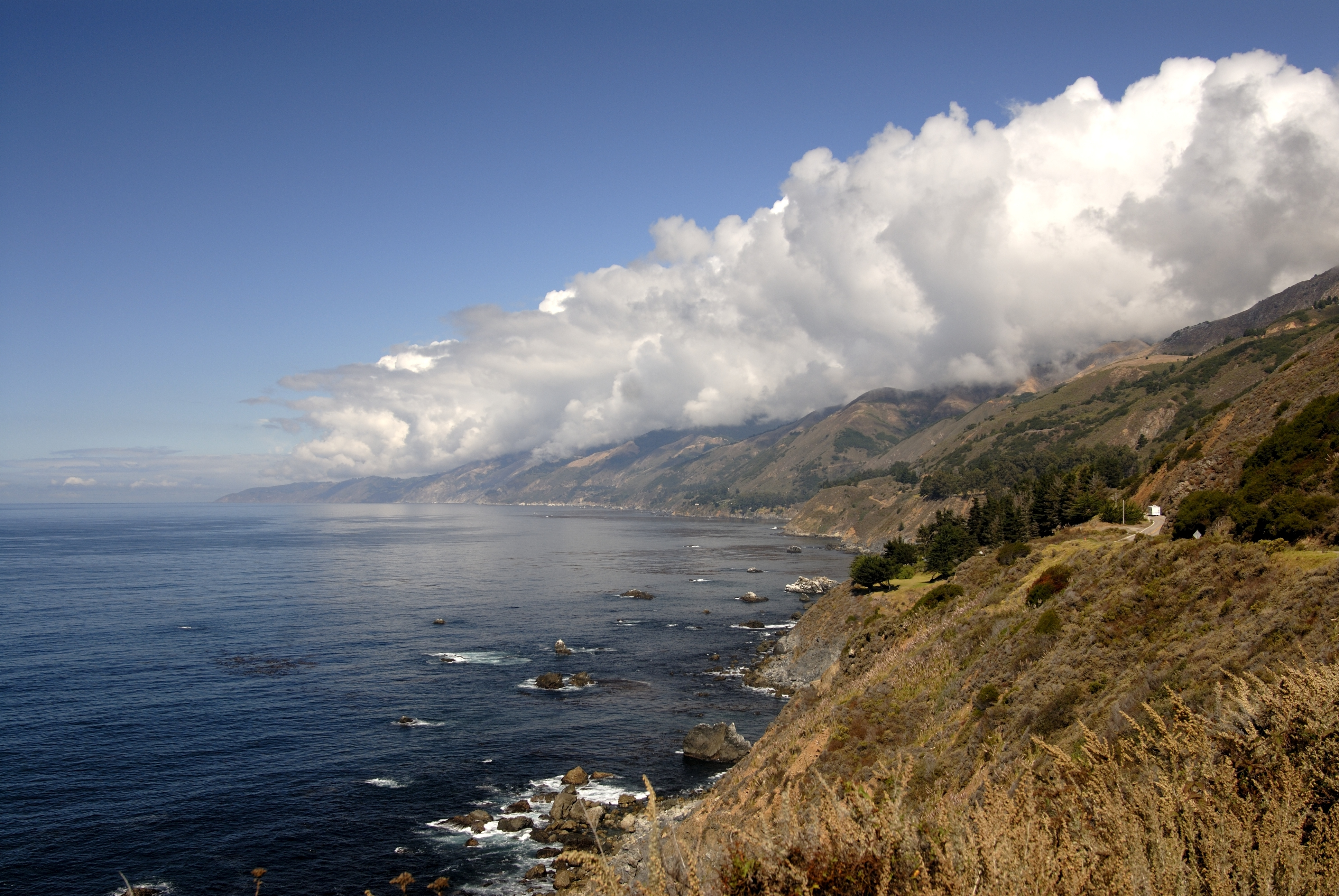 Big Sur coastline and Santa Lucia Mountains — with orographic clouds. Orographic lift of moist air coming off ocean produces clouds along the Santa Lucia Range, of the California Coast Ranges System. Located south of Monterey, in Monterey County, California.